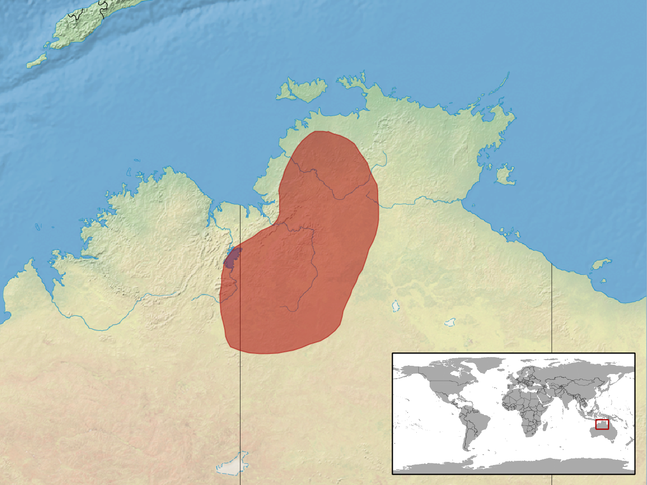 geographic distribution of Tympanocryptis uniformis (Native: Australia (Northern Territory, Western Australia))